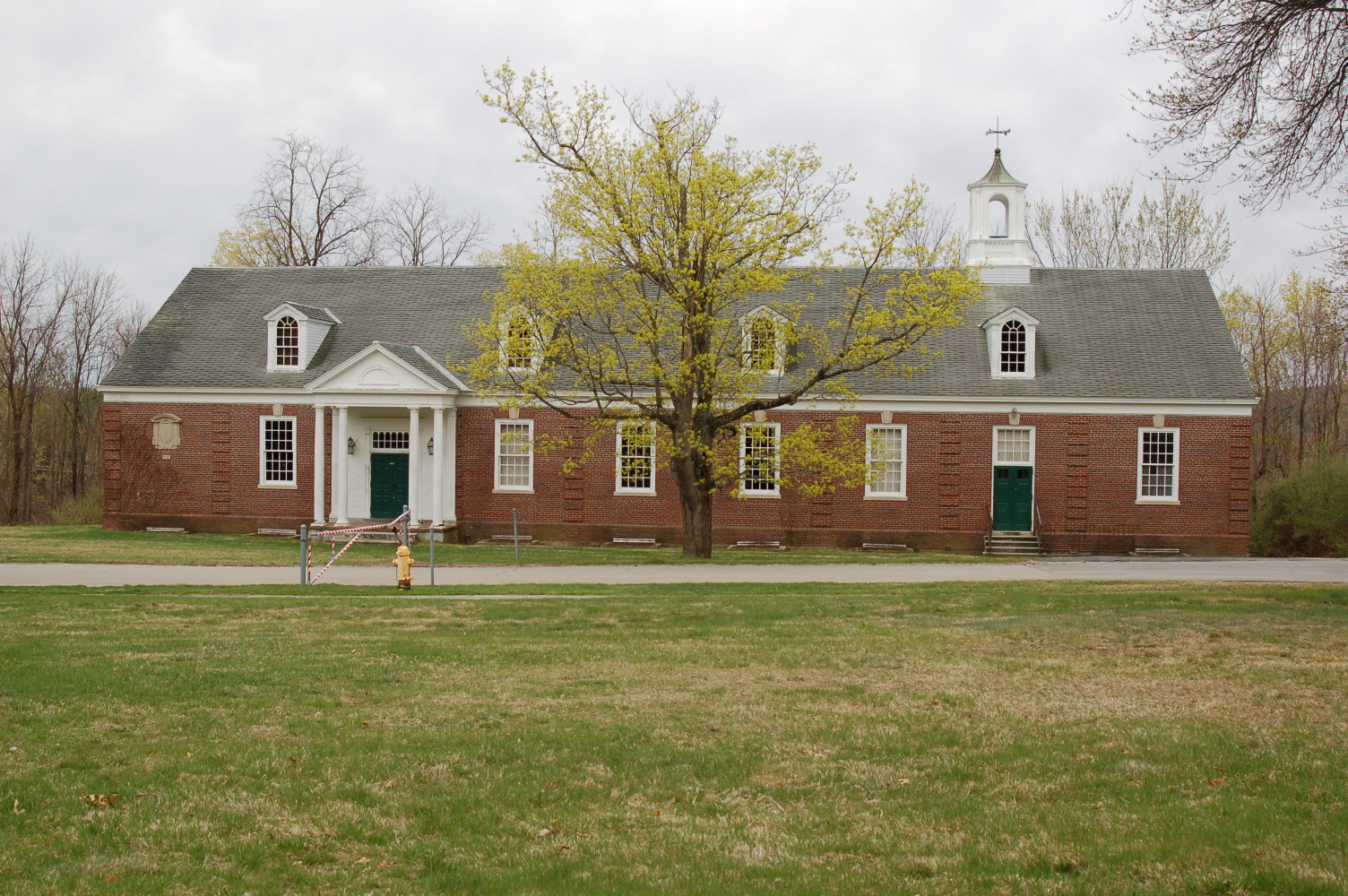 Photo taken by Author, Richard B. Johnson